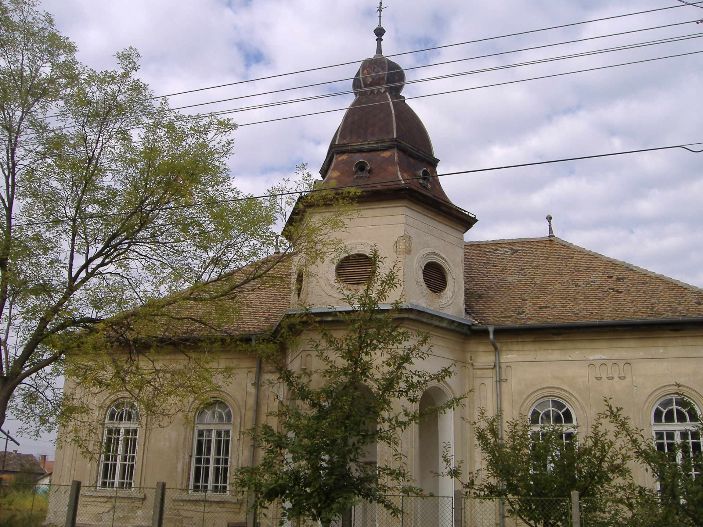 Calvinist oratory in Makó, Hungary.